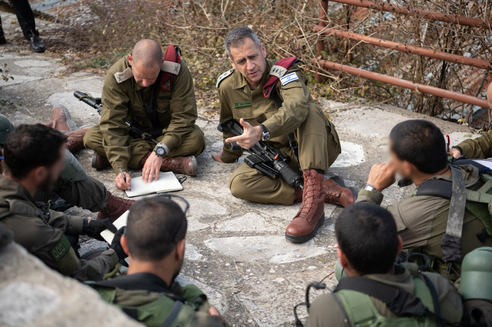 IDF Chief of Staff Aviv Kohavi visits a special forces exercise taking place in Cyprus in December 2019.